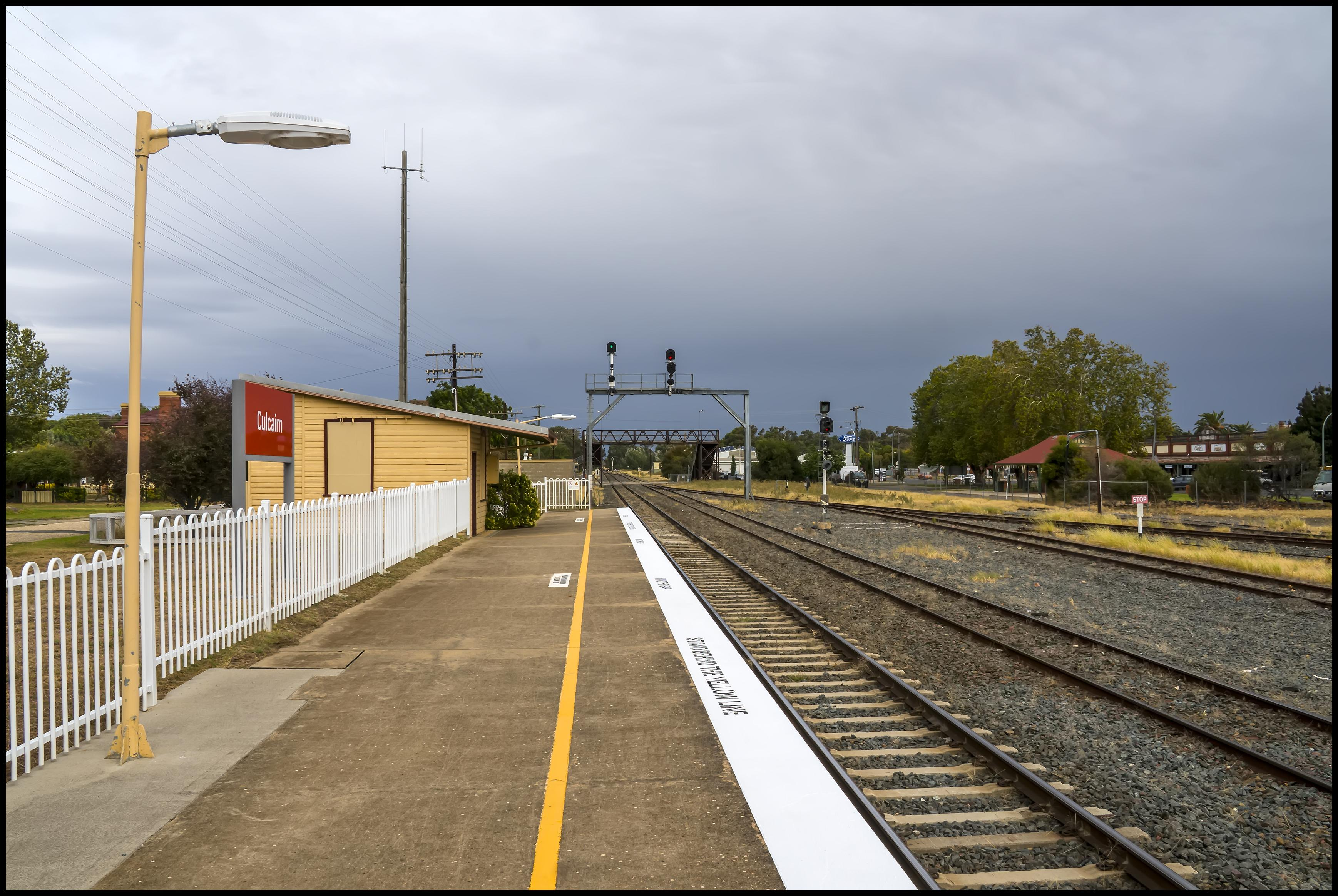 Railroad to Melbourne from Culcairn NSW